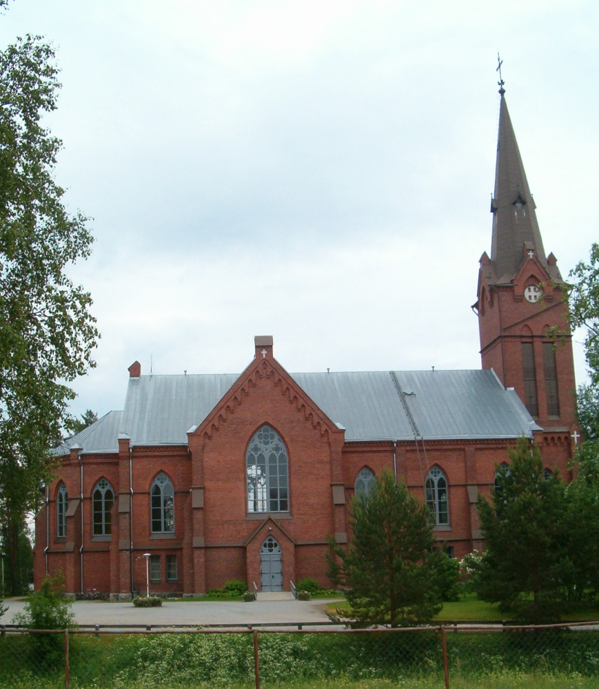 The Church of Nurmes, Finland. See also image:Nurmes Church 2.jpg